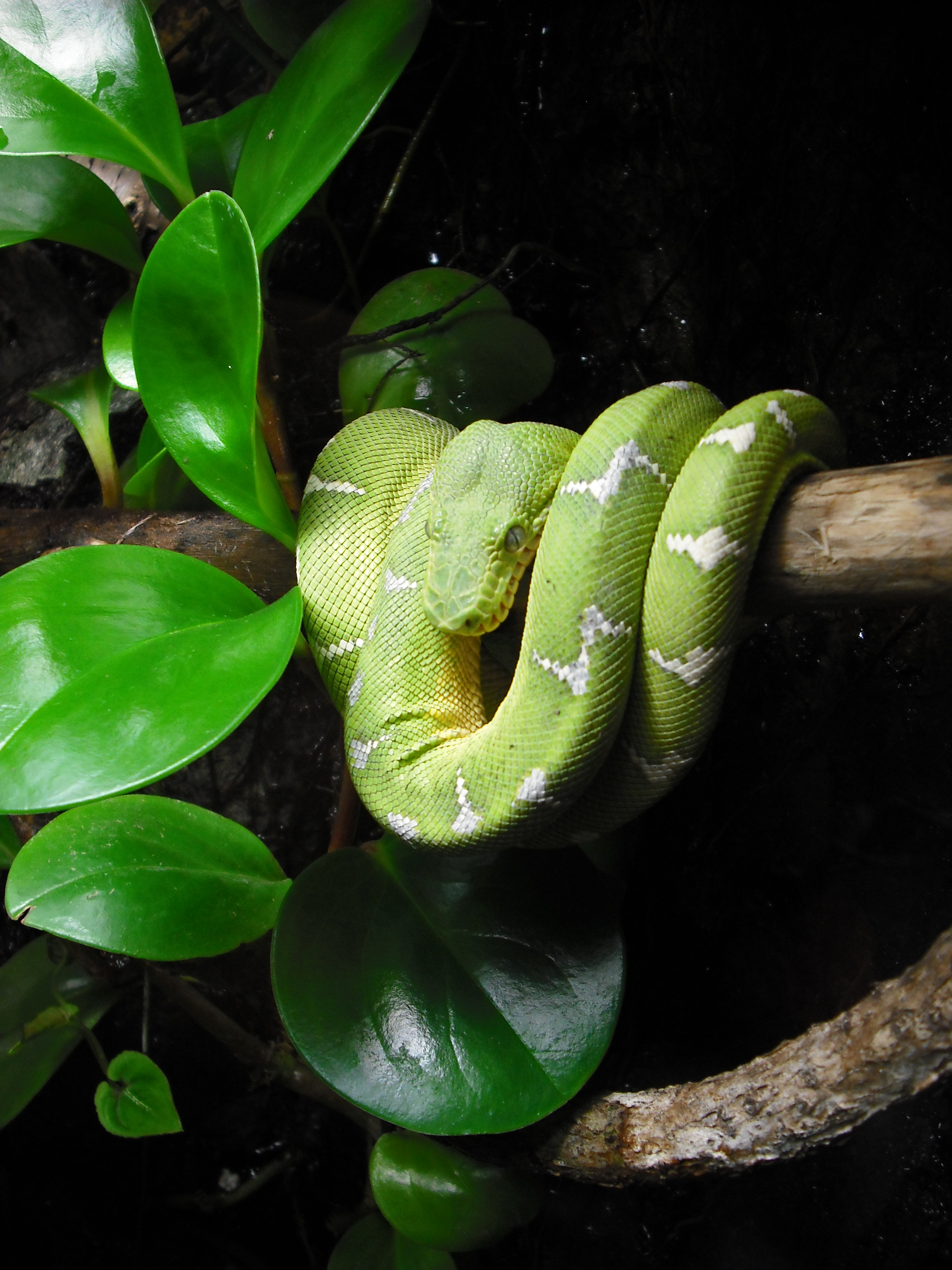 snake at the Baltimore Aquarium